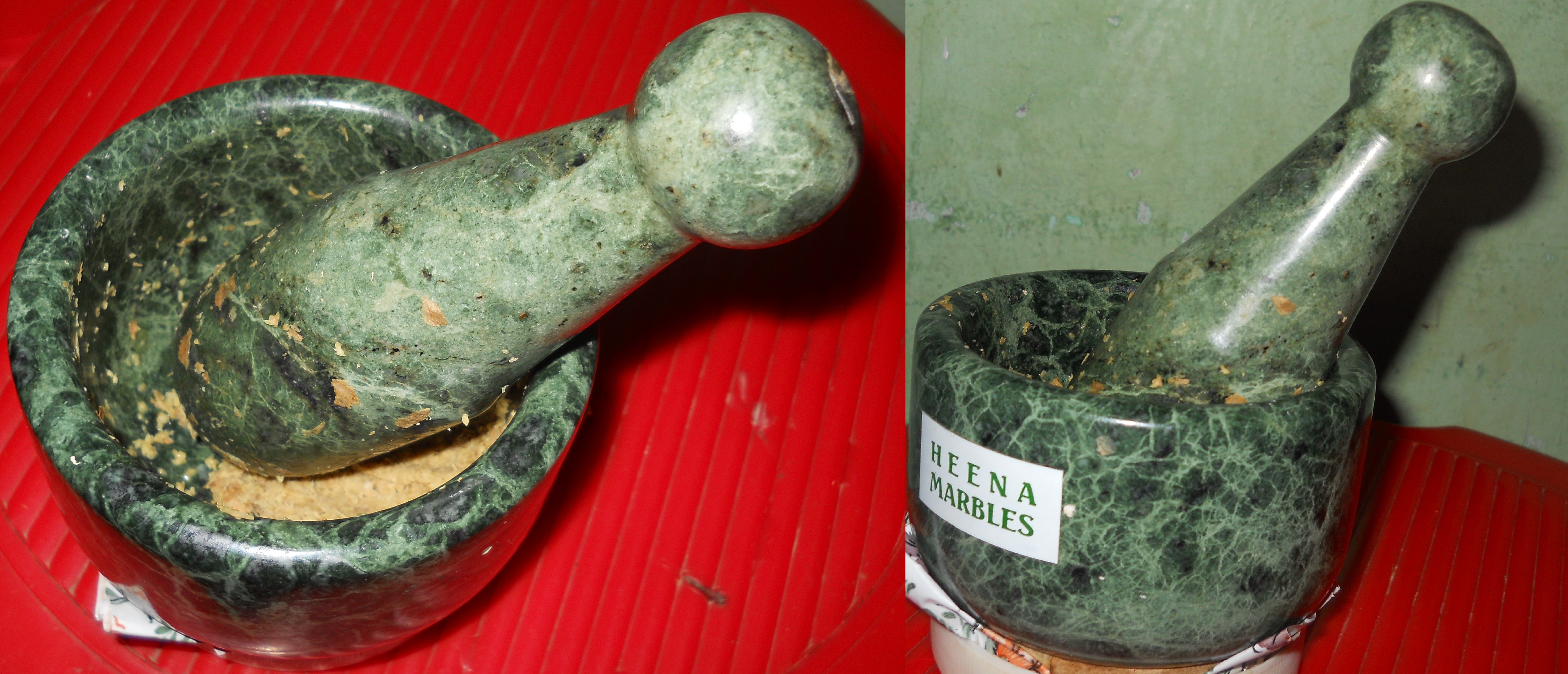 Mortar and pestle Made of Marble stone in India